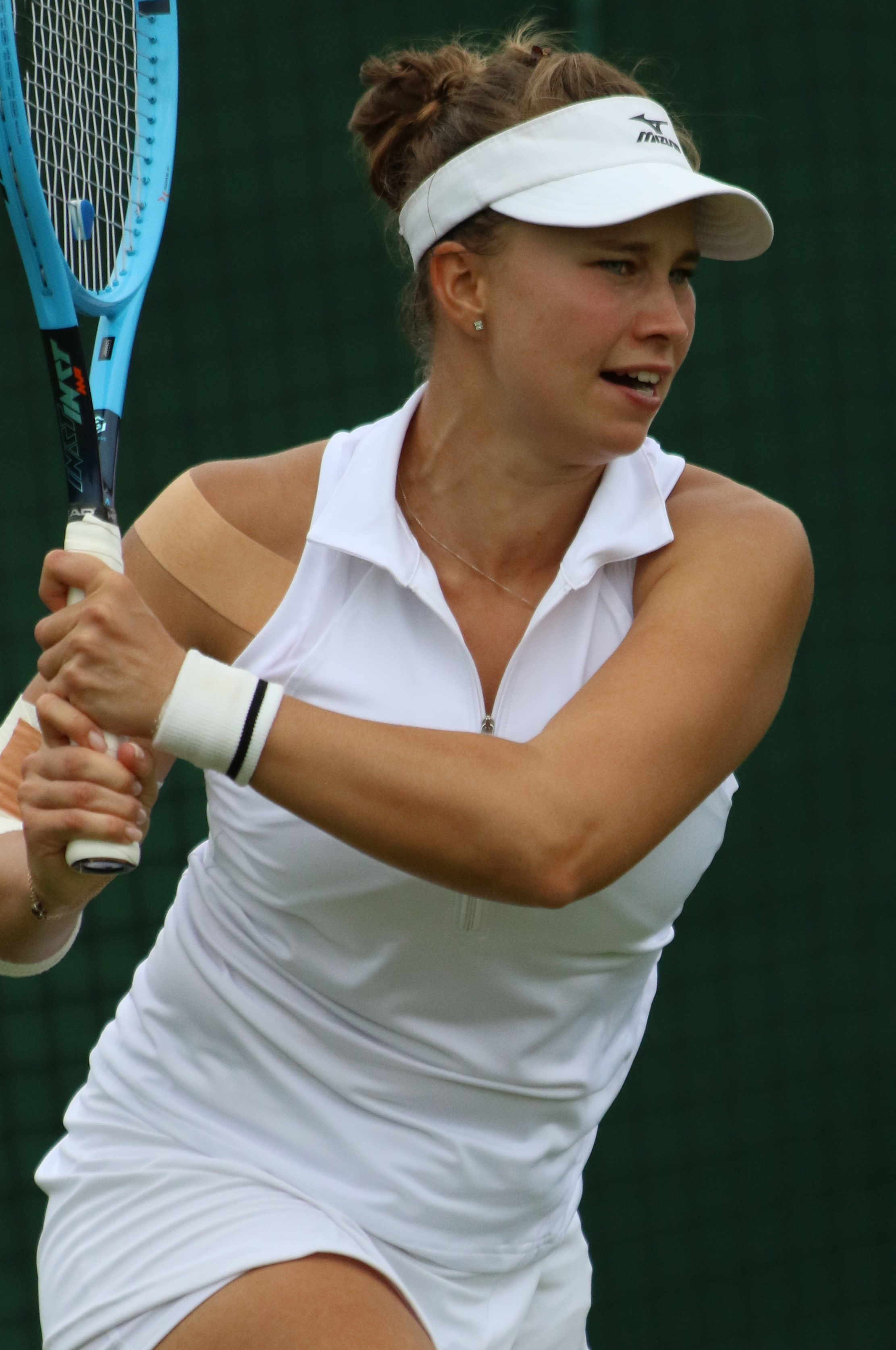 2019 Wimbledon Qualifying Tournament.